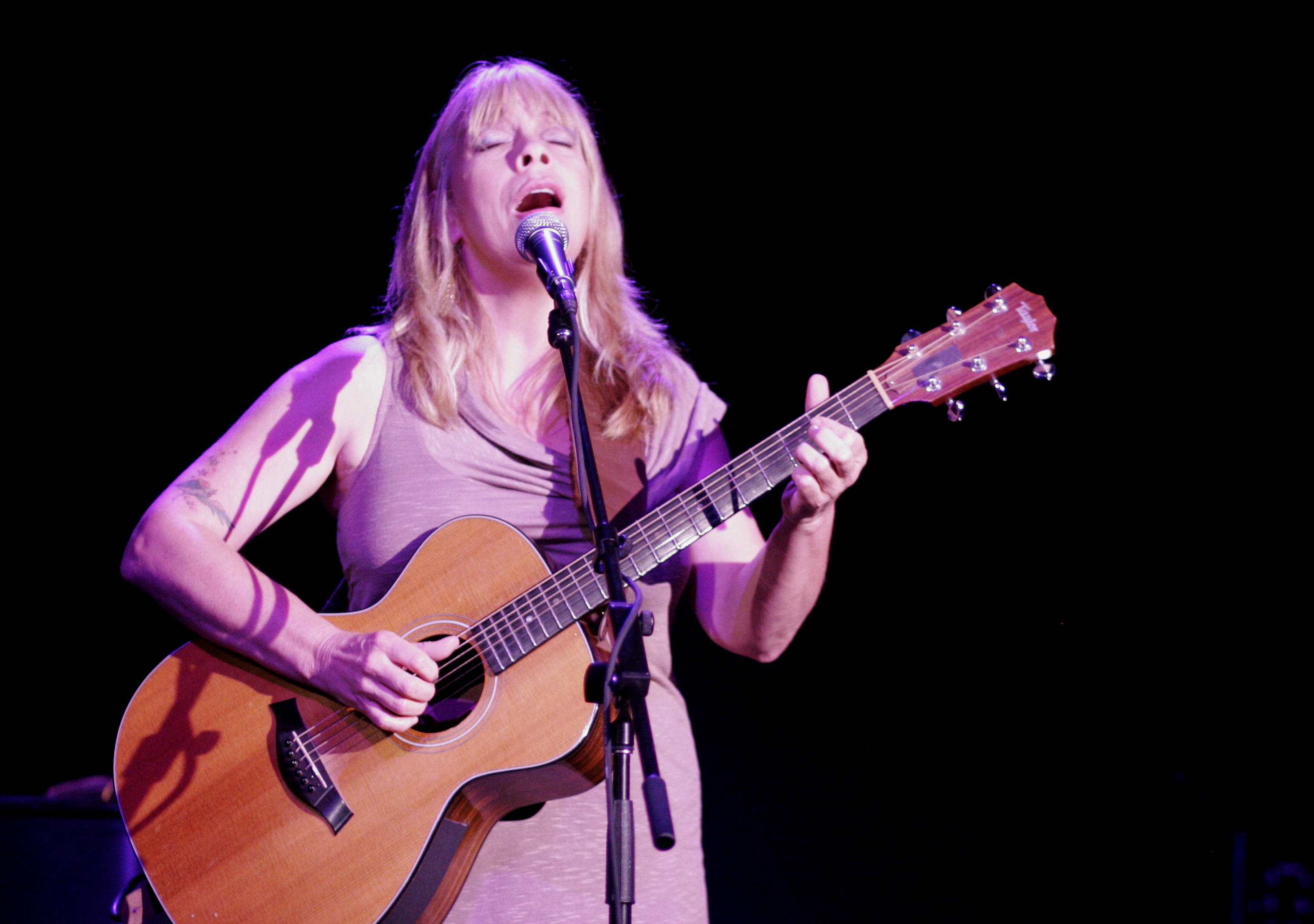 Rickie Lee Jones at Poisson Rouge NYC; June 29, 2008 Photo: Claire Stefani